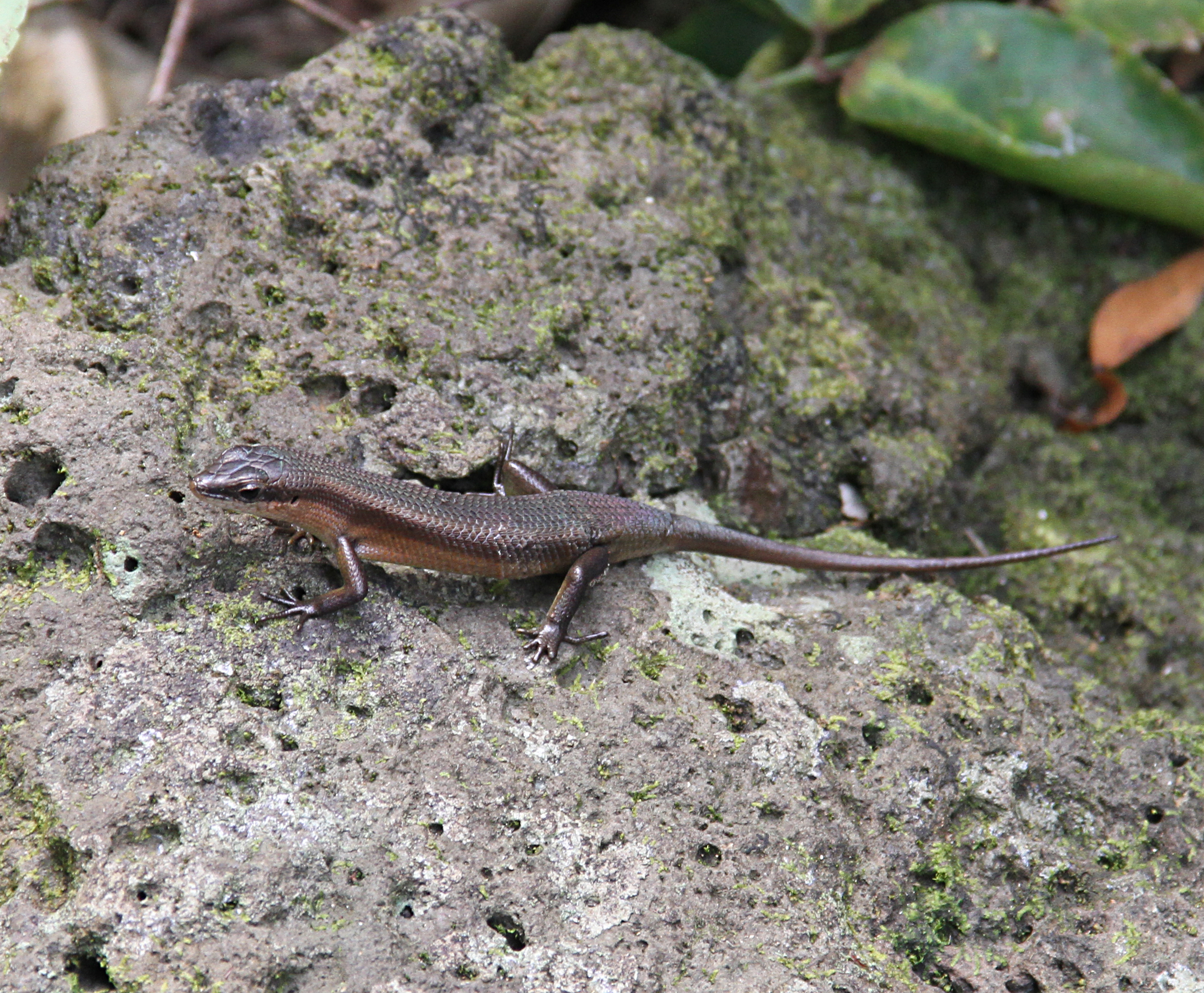 Trachylepis polytropis, Islote Horacio, Bioko The making of this document was supported by the Community-Budget of Wikimedia Germany.